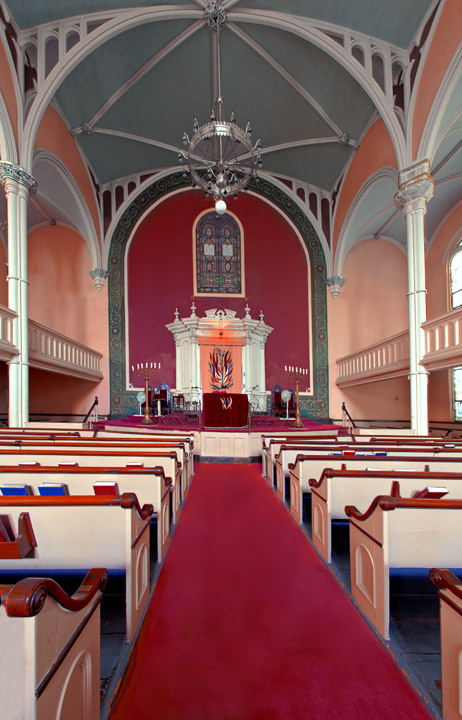 Sanctuary of Congregation Baith Israel Anshei Emes/The Kane Street synagogue